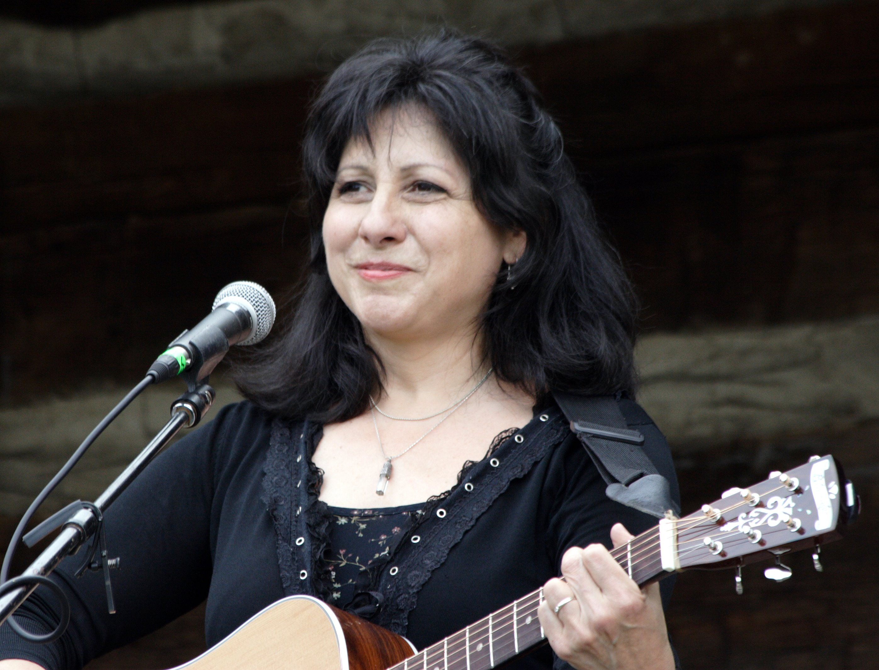 Tish Hinojosa performing at MerleFest, 2008, Photo by Forrest L. Smith, III